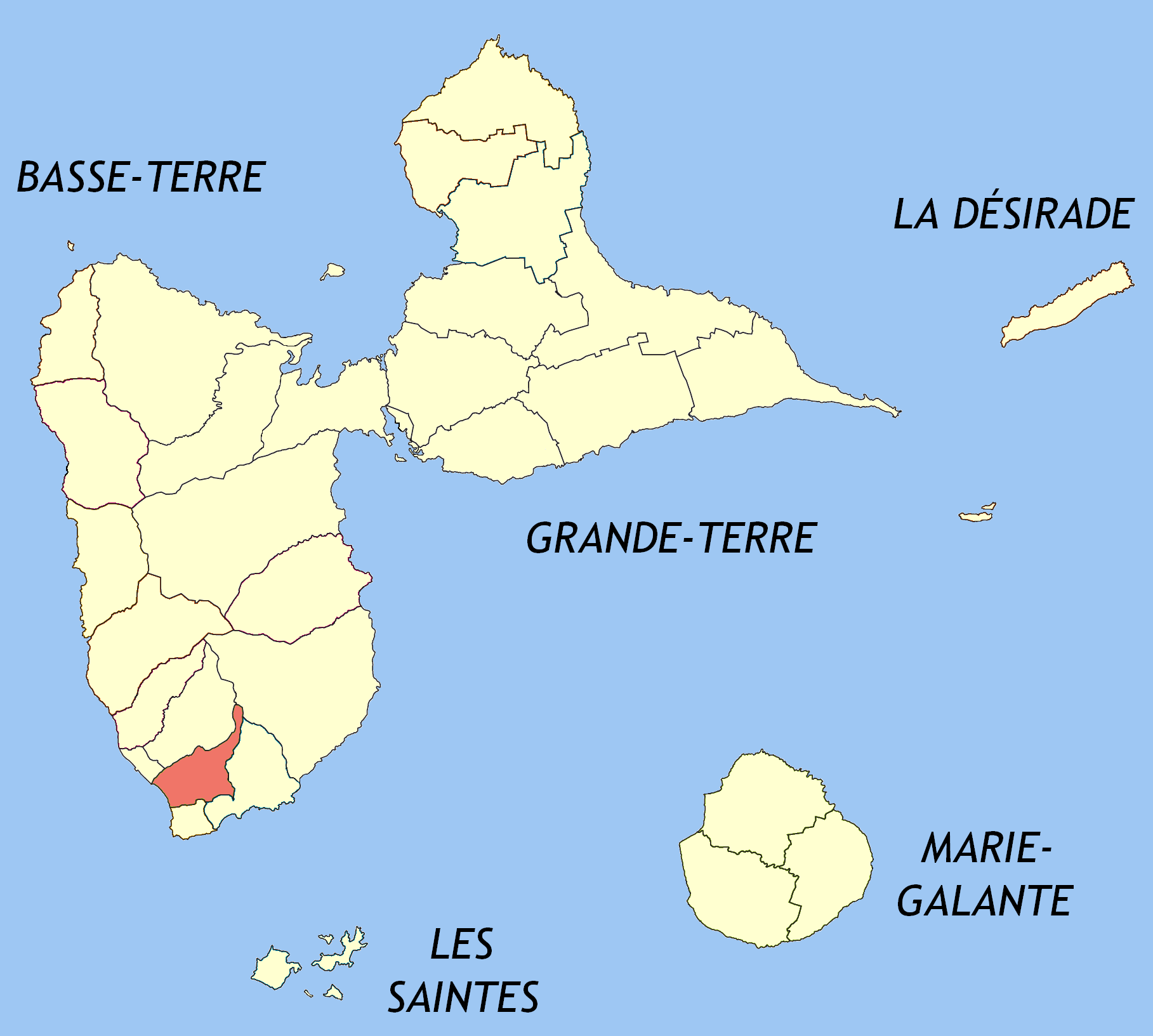 Created map myself.